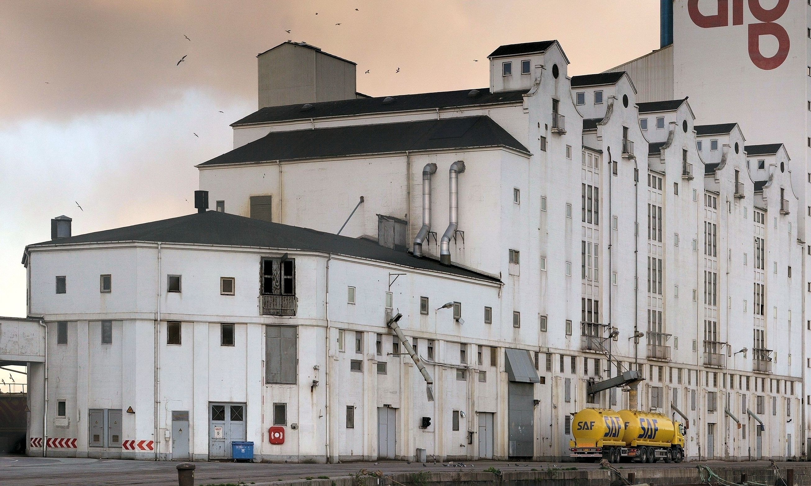 De fem søstre